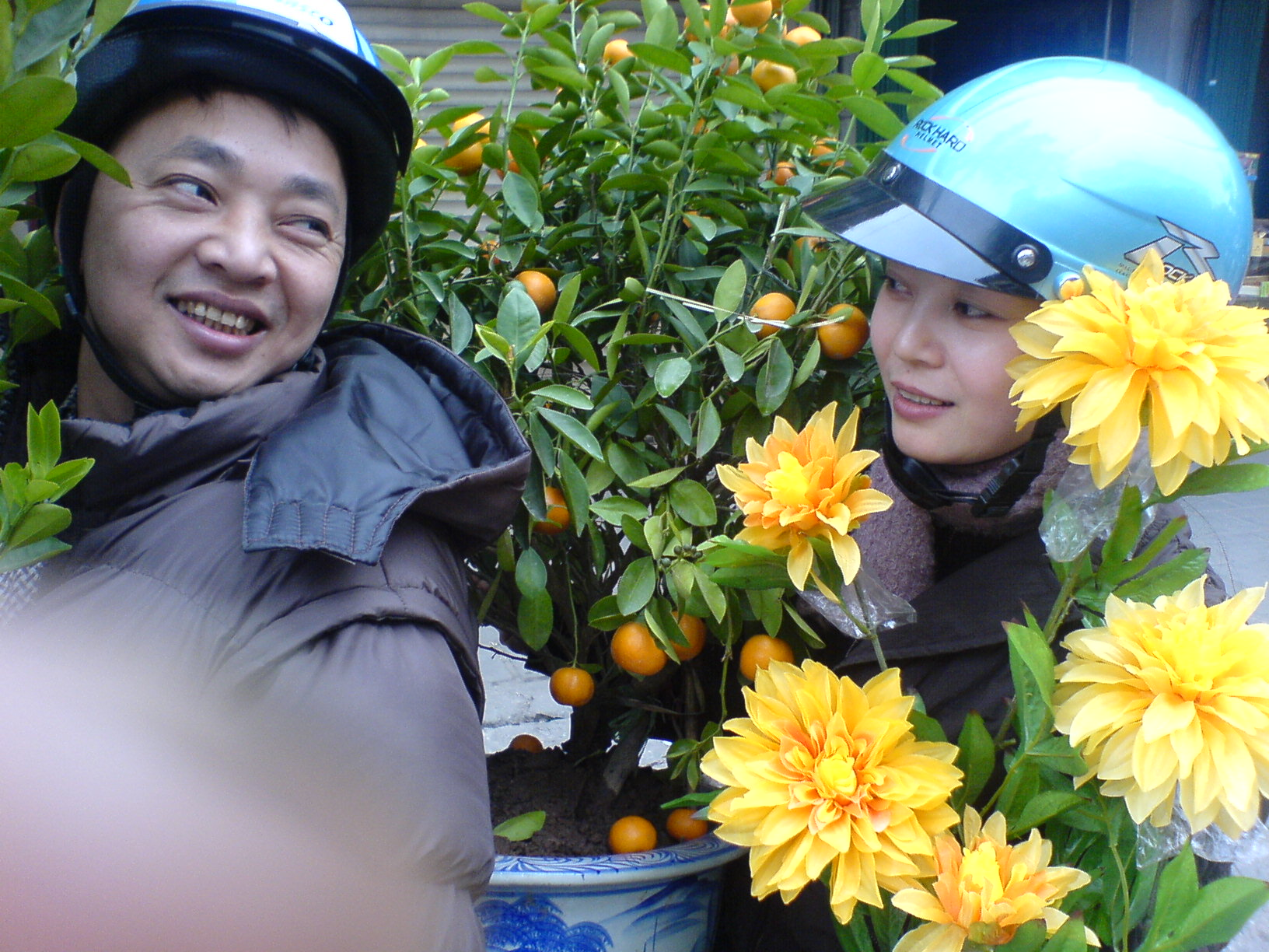 Happiness